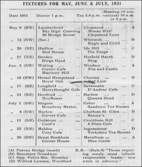 The first published runs list for the Forty Plus Cycling Club dated 1951.